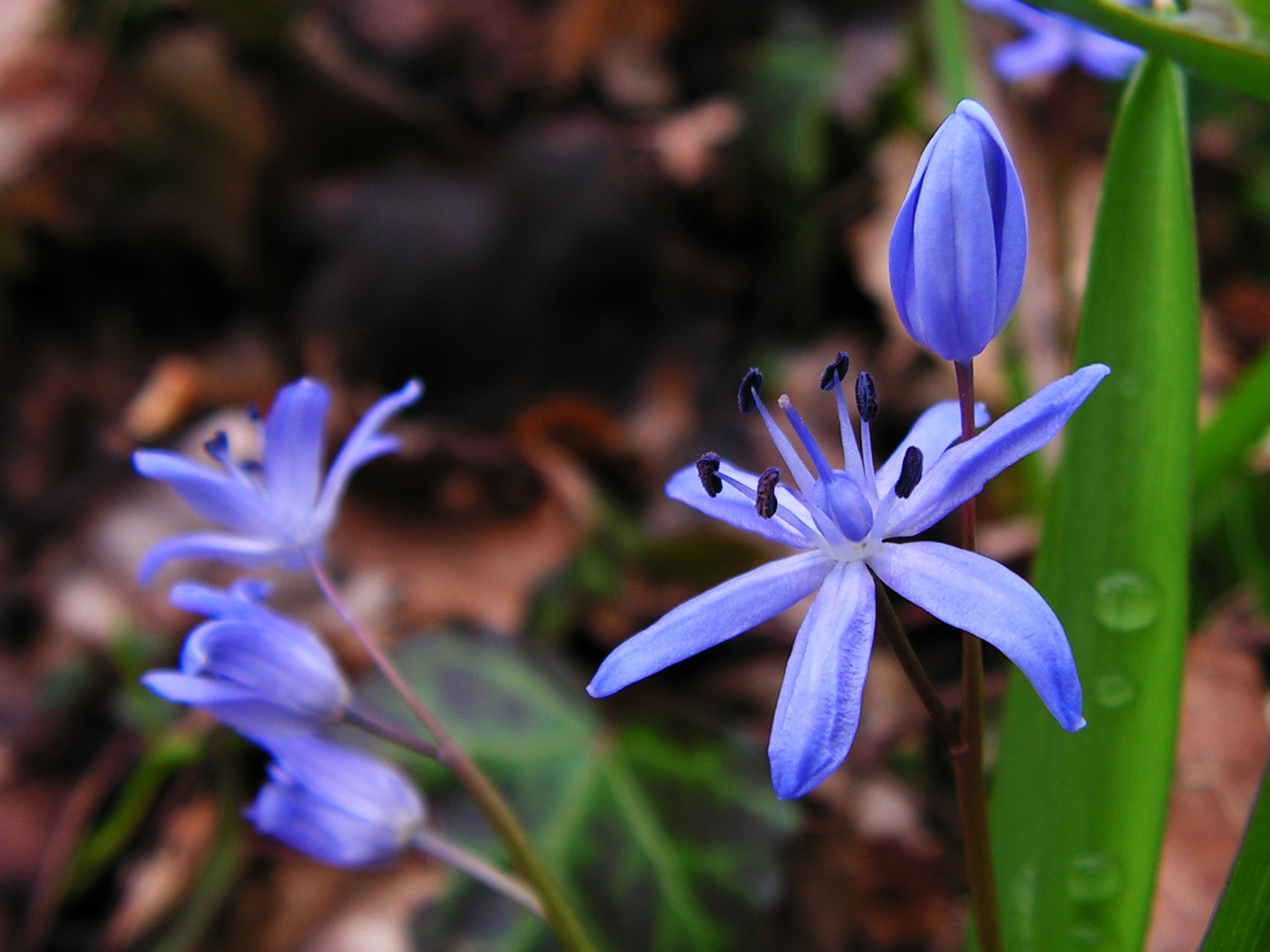 Scilla bifolia flowers, Isère (France)